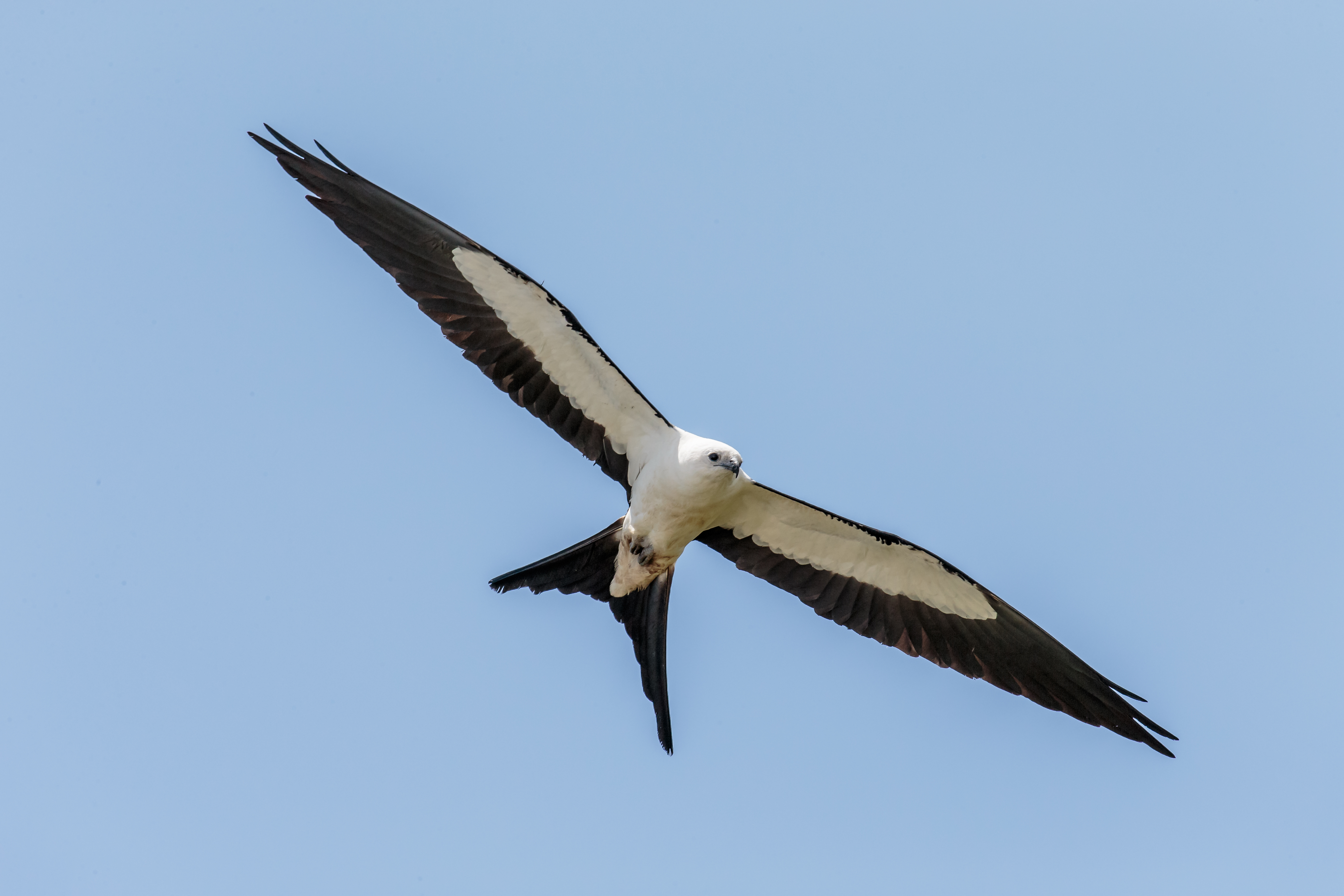 Taken on Tigertail Beach, Marco Island, Florida.